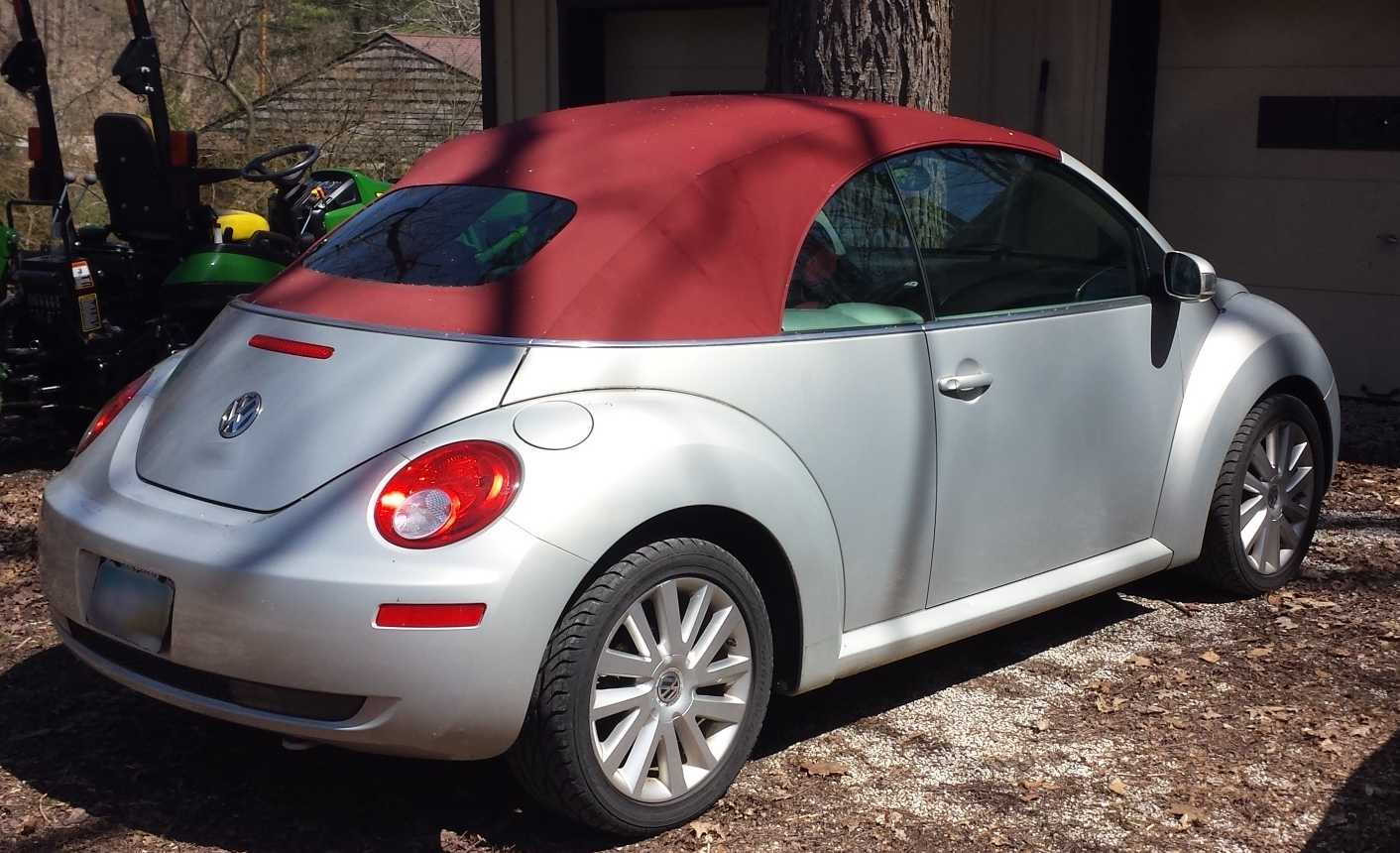 This is a 2009 Volkswagen New Beetle Convertible, in the special Blush edition. It features a "white gold" exterior paint and "Bordeaux red" covertible top color, with burgundy seats matching the color of the convertible top.